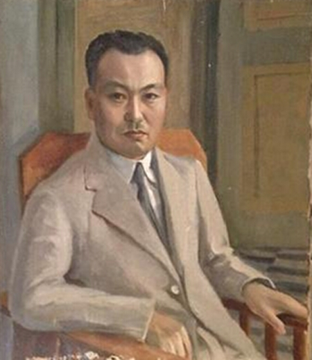 Matsushita Mitsuhiro, owner of the Vietnam based (1922-75) trading company Dainan Kōshi 大南公司.